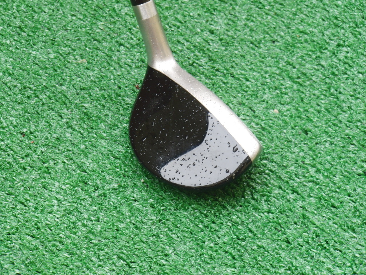 Golf club, Ping G10 24º hybrid